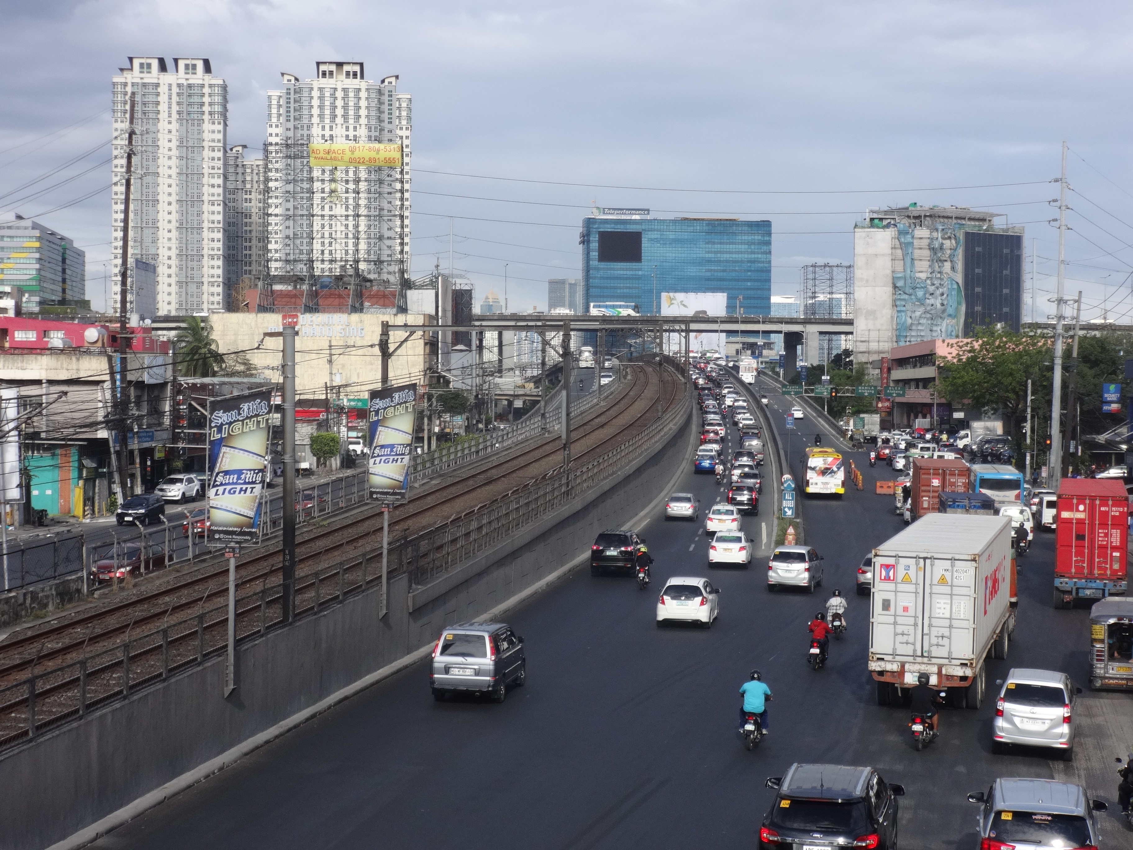 Magallanes section of EDSA (N1/AH26) in Makati City